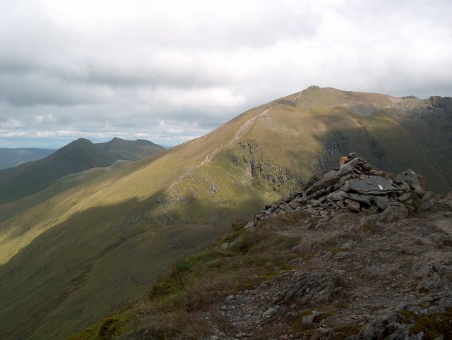 The summit of Beinn Ghlas It is somewhat overshadowed by Ben Lawers, but is a worthy climb in itself.